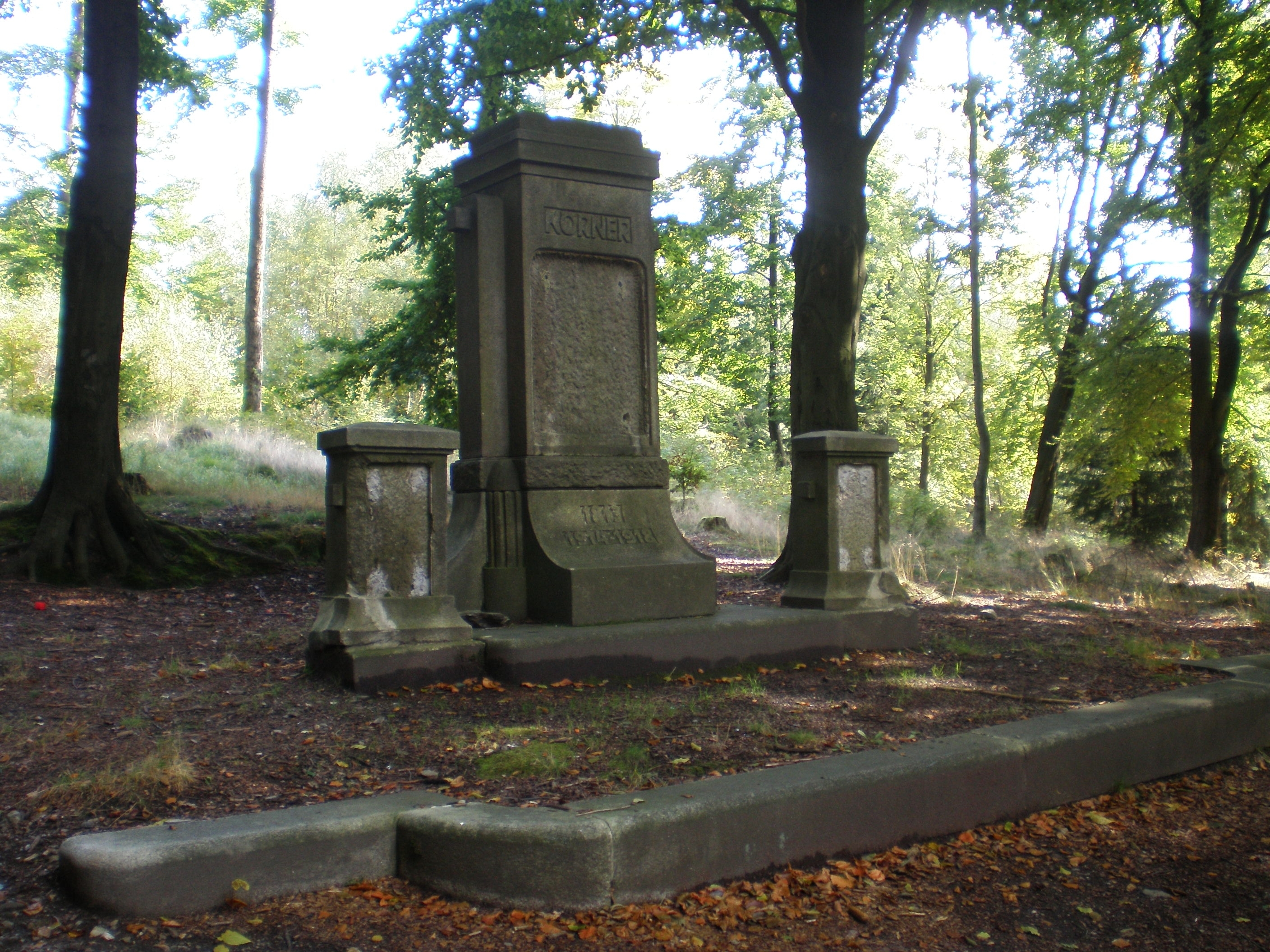 Theodor Körner Memorial in Aš, Czech Republic.